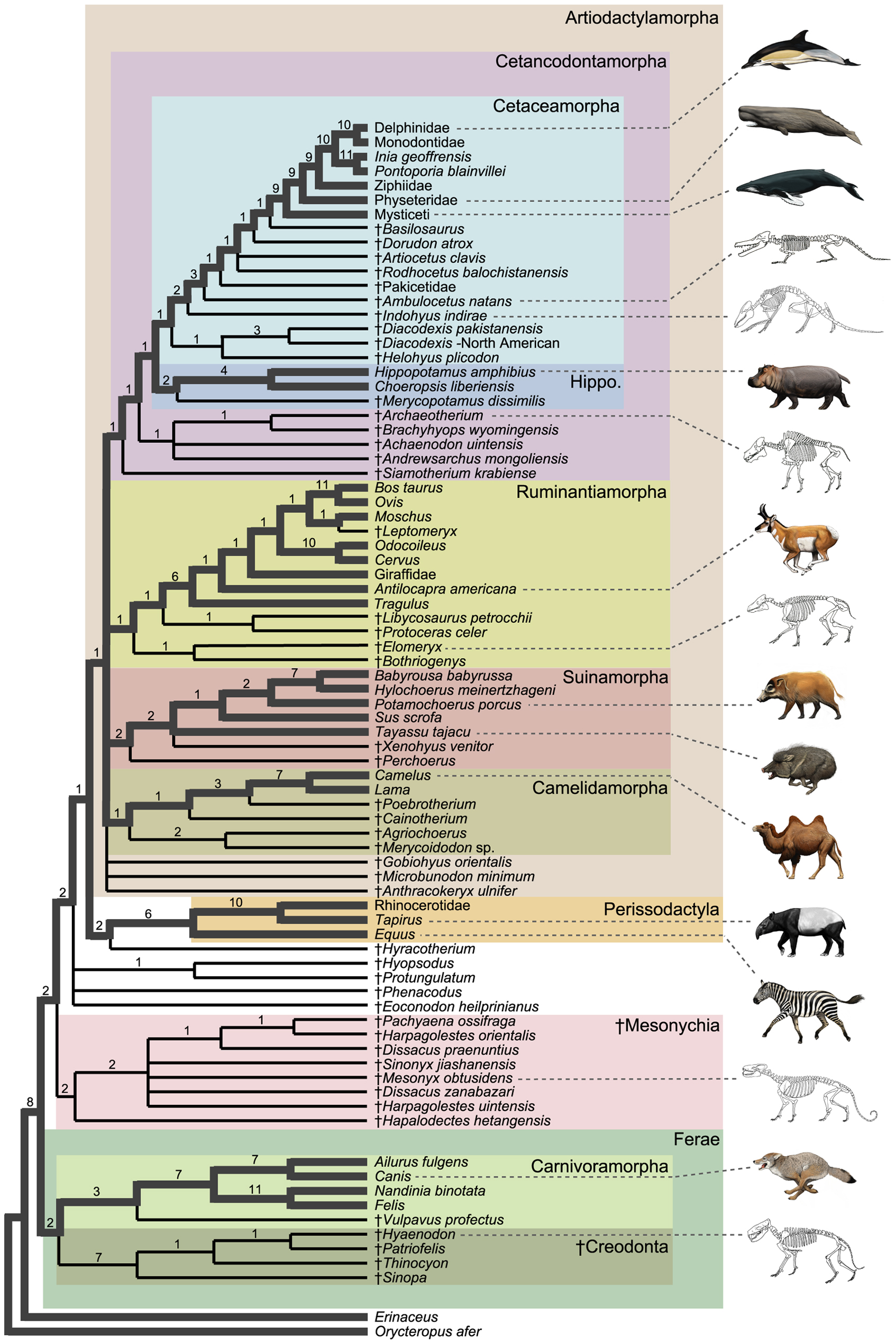 Strict consensus of 20 minimum length trees for the equally-weighted parsimony analysis of the combined data set (57,269 steps). The contents of 12 taxonomic groups, including the total clades Cetaceamorpha and Cetancodontamorpha are delimited by different colored boxes (‘Hippo’ = Hippopotamidamorpha). Lineages that connect extant taxa in the tree are represented by thick gray branches, and wholly extinct lineages are shown as thin black branches. Estimates of branch support scores are above internodes; given the complexity of the data set, these should be interpreted as maximum estimates. Illustrations are by C. Buell and L. Betti-Nash.